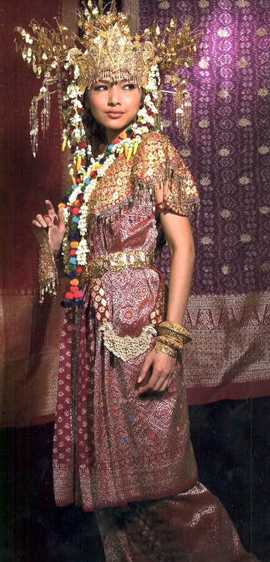 Aesan Gede is traditional wedding costumes of Palembang, South Sumatra, Indonesia. It employs songket fabrics with silver and golden threads, also golden jewelries. This rich and luxurious costumes displays the grandeur of Srivijaya empire.